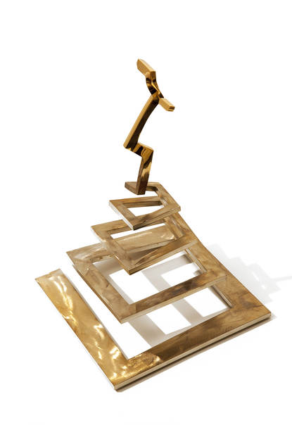 Trofee de gouden piramide